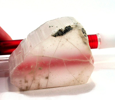 Ulexite Locality: Boron, Kramer District, Kern County, California, USA (Locality at ) This is a great example of the transparent and colorless mineral known as "TV rock" because it has optical properties like fiber-optic cable. It is transparent along the perfect vertical axis, while opaque along other axes. When polished, as this is, you can hold it over writing and witness this phenomenon. Is this a fine mineral specimen? No, not really. But it is really "neat" material and I wasn't sure those outside of California had been exposed to it. It does get sold widely to museums and rock shops, again labelled as "tv rock" or "fiber-optic rock". Fun for kids... 4.3 x 3.1 x 1.9 cm